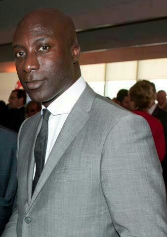 Fashion designer Ozwald Boateng, at the Financial Times 125th Anniversary Party (cropped image).